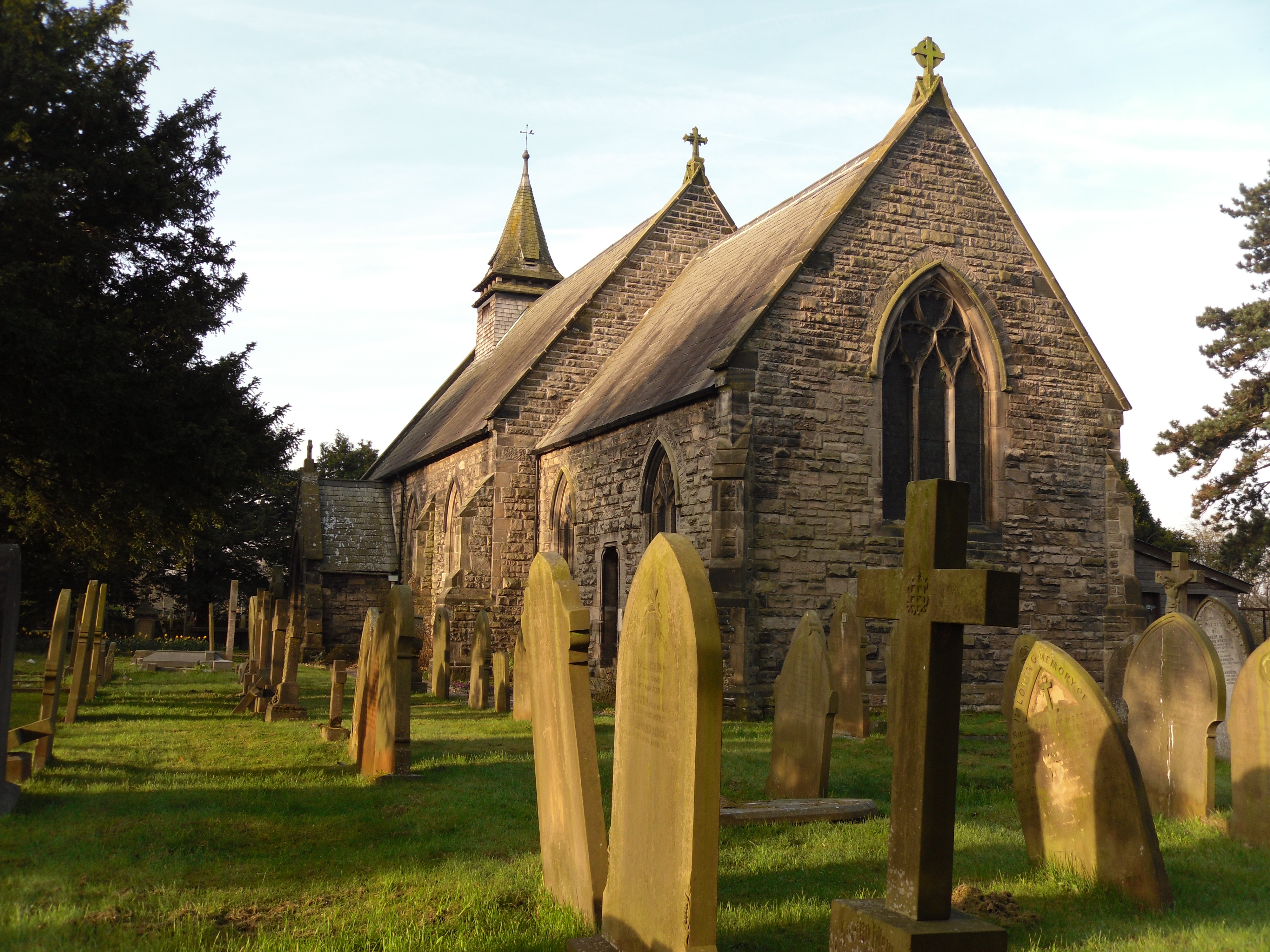 St Paul's church, Over Tabley, Cheshire, seen from the northeast